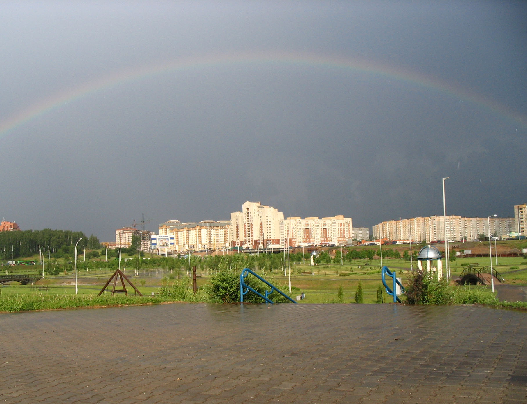 Uručča microdistrict, Minsk, Belarus